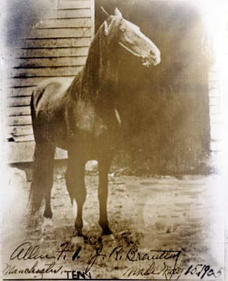 Allan F-1, also known as Black Allan, a foundation sire of the Tennessee Walking Horse. Image taken c.1905